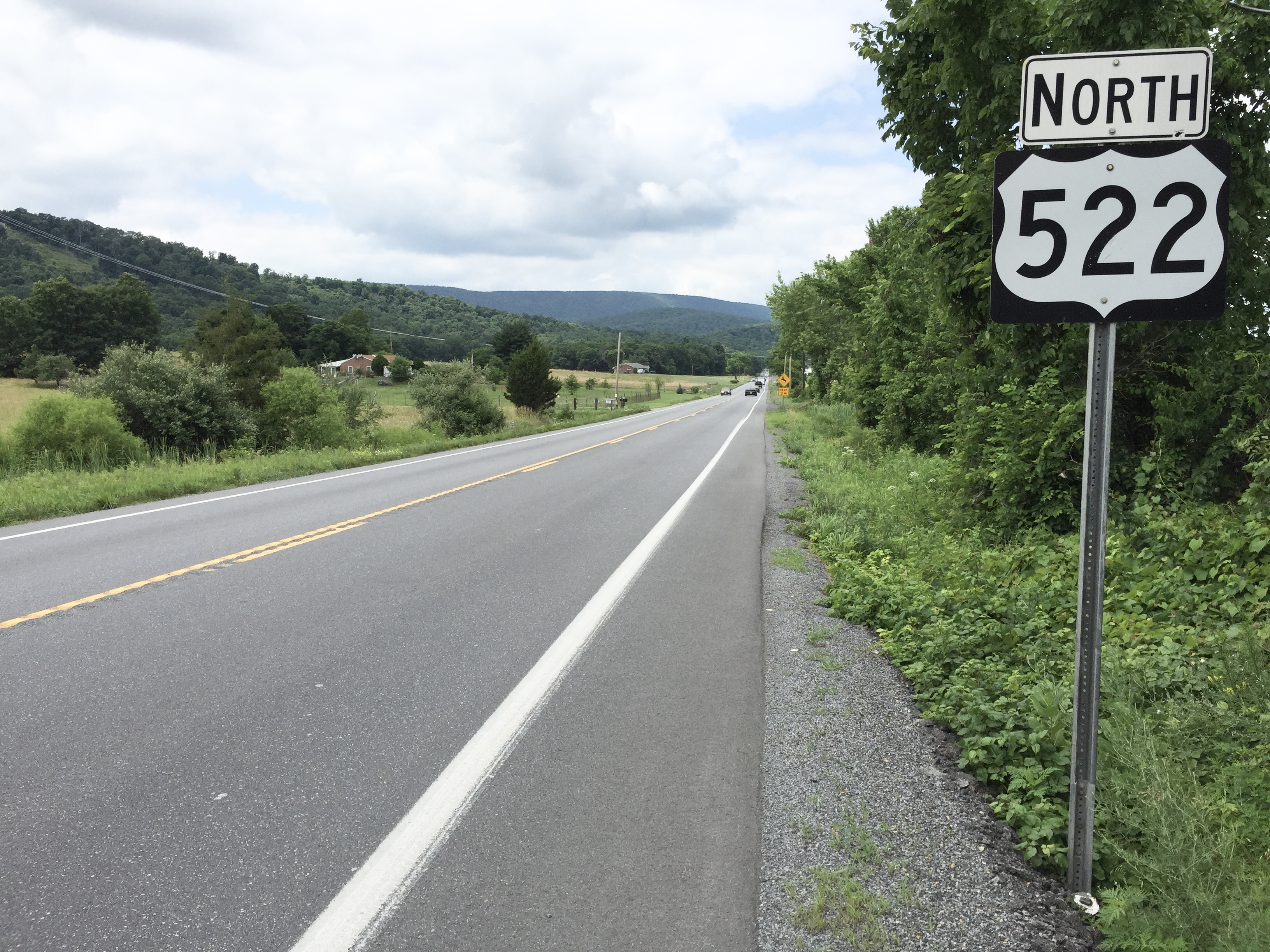 View north along U.S. Route 522 (Valley Road) just south of Fred Michael Lane in southern Morgan County, West Virginia